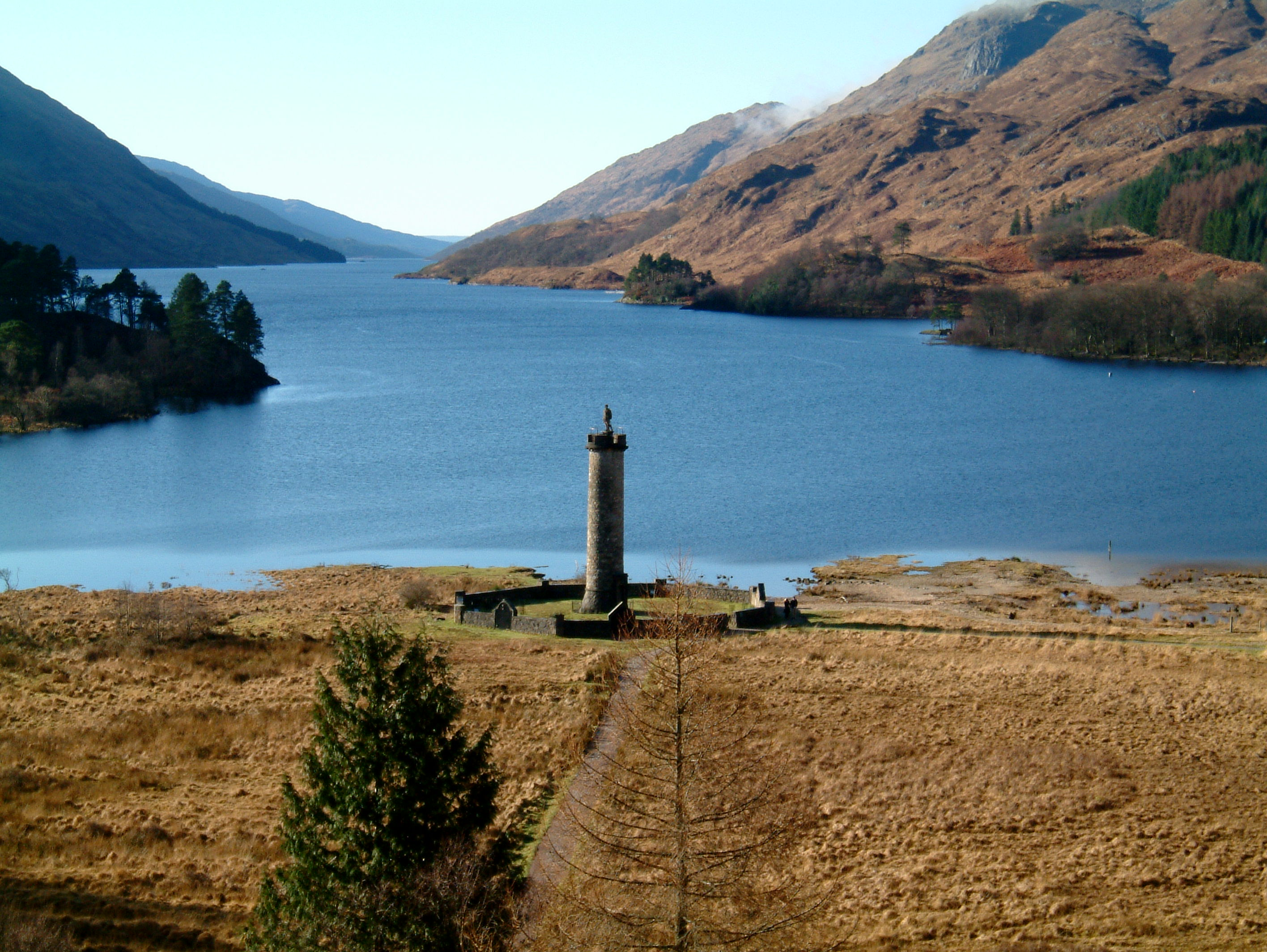 Glenfinnan bay in West Scotland with the statue.